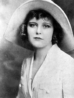 According to The University Libraries, The University of Iowa website here from where I acquired the image, the photo was taken when Juanita Hansen was seventeen years old, or 1912/3.